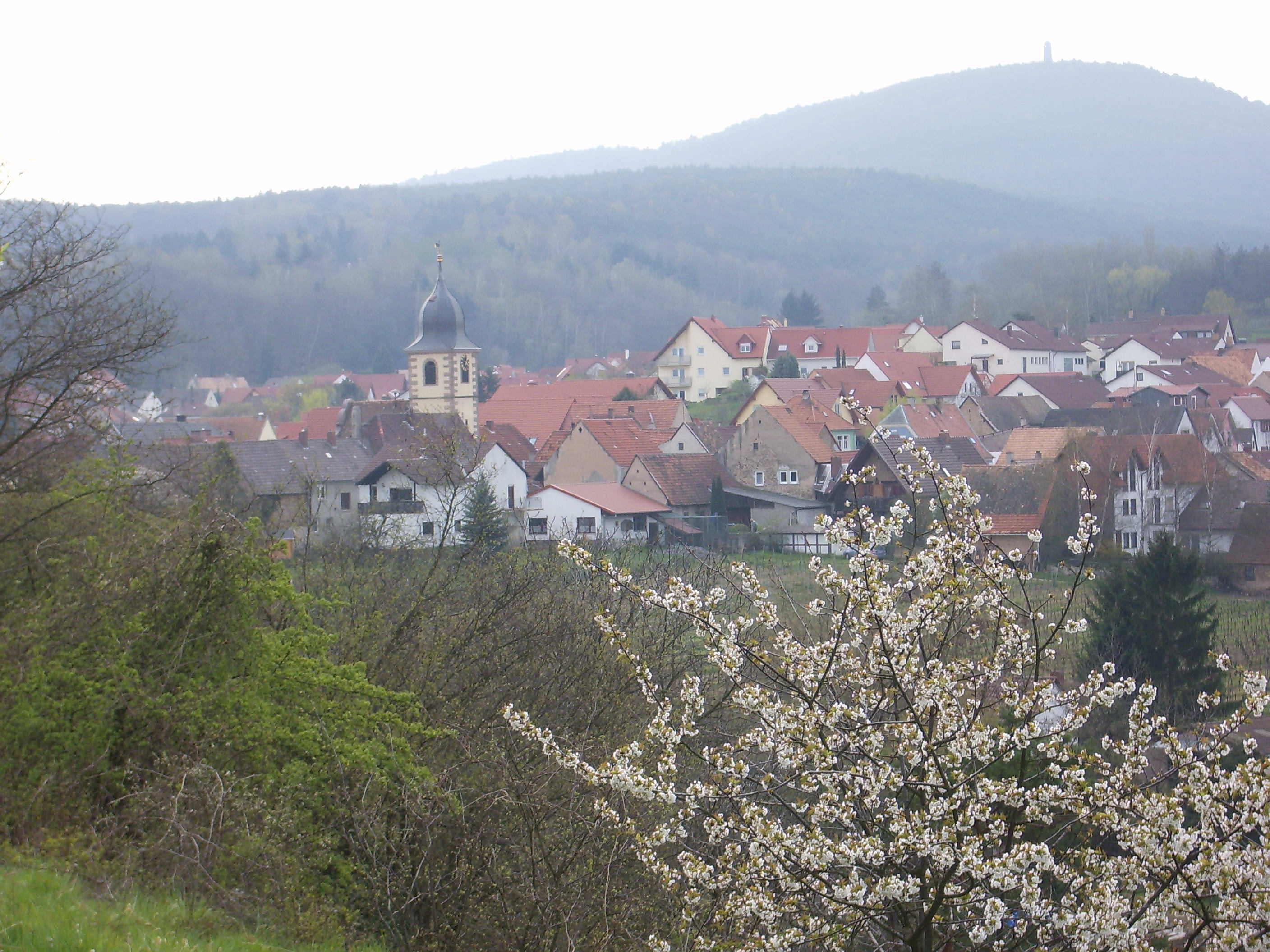 The village of Leistadt beginning of April 2007. The photograph was taken from the apple tree gardens of the 'Berntal' (north-east of Leistadt). On the top of the mountain the 'Bismark tower' is visible.